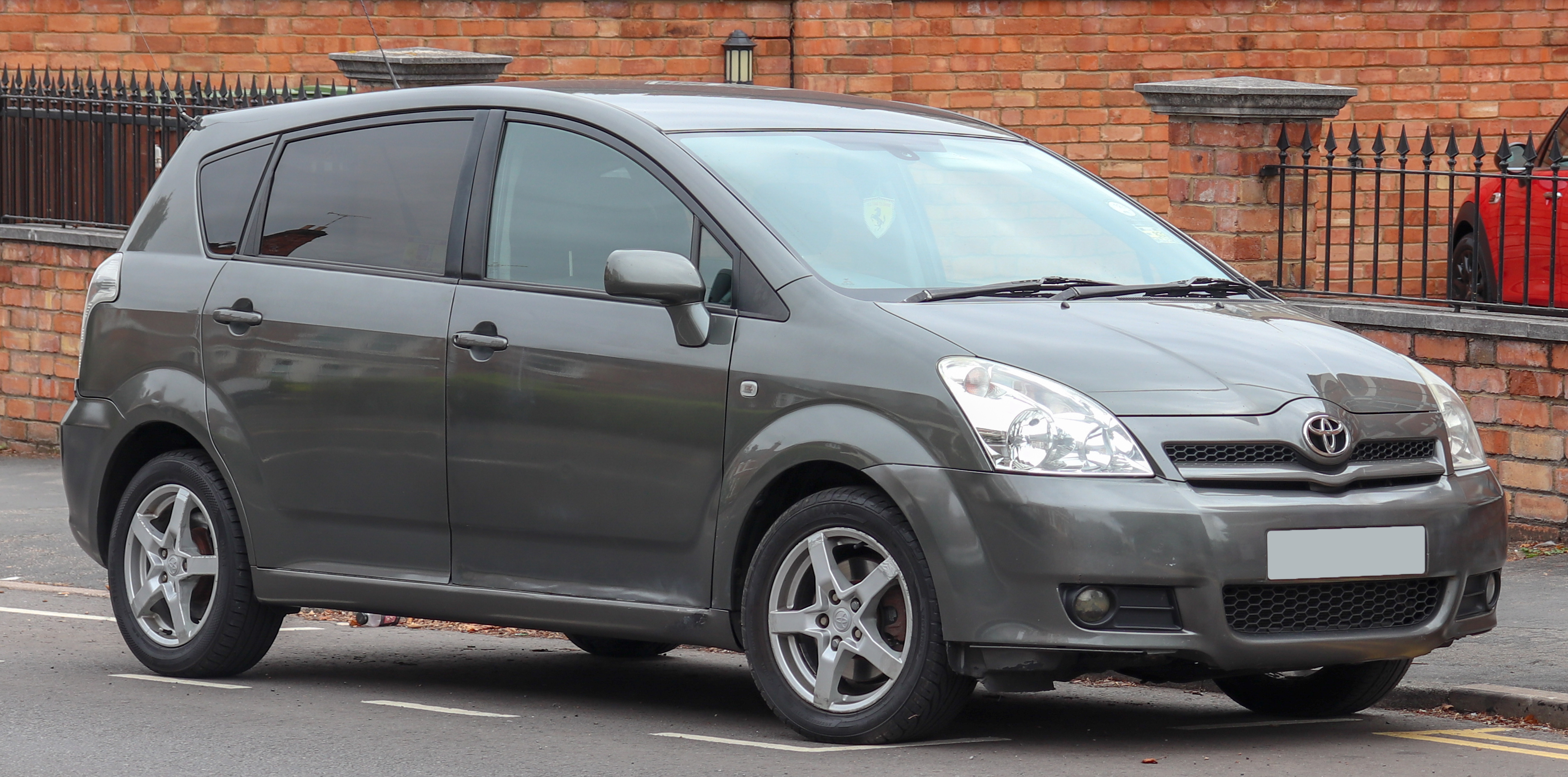 2006 Toyota Corolla Verso TR D-4D 2.2 Front Taken in Leamington Spa